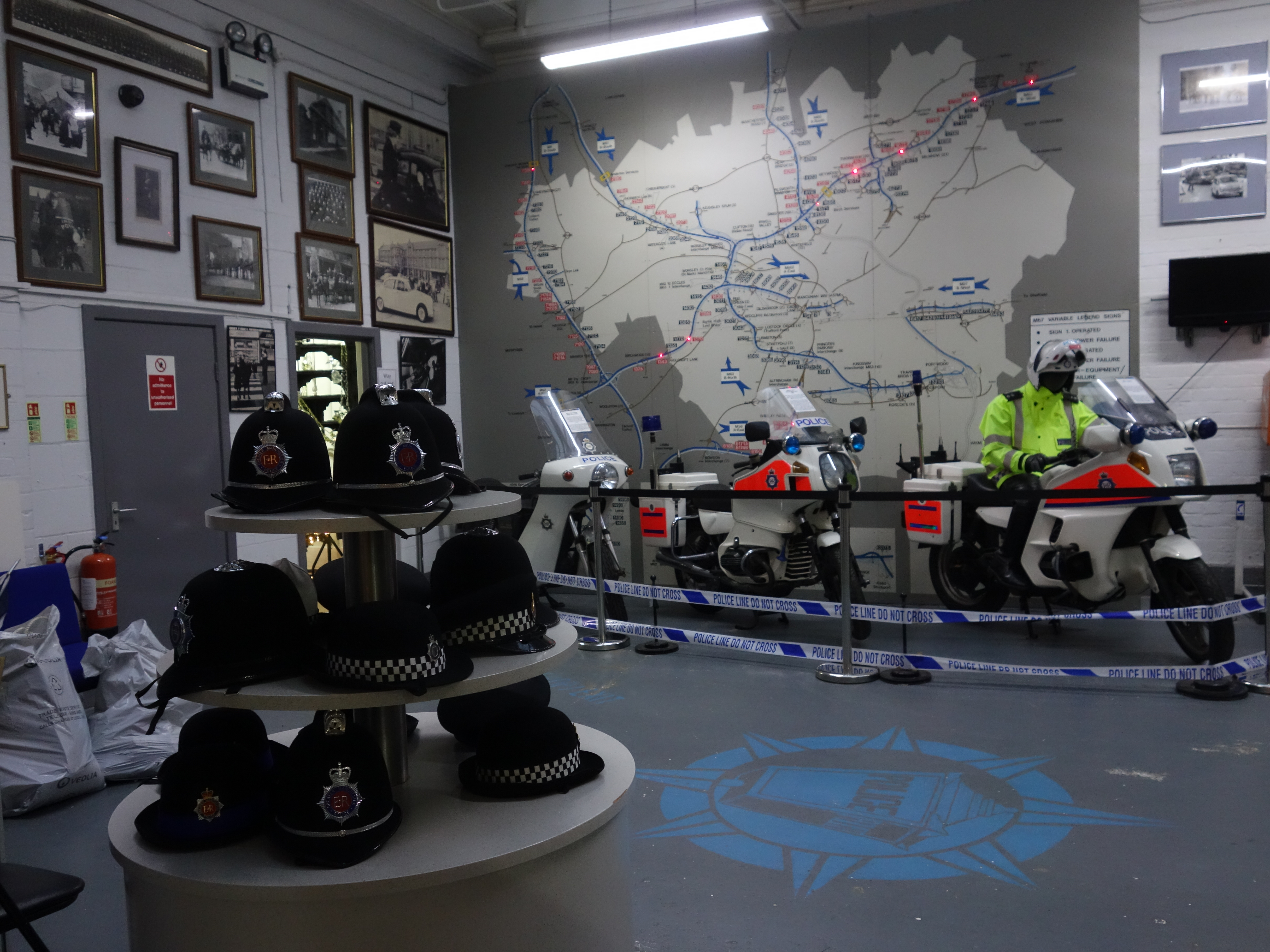 one of the rooms inside the Greater Manchester Police Museum, with helmets and motorbikes on display